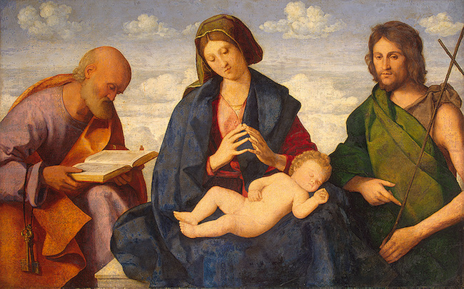 Madonna and Child with St John the Baptist and St Peter Catena, Vincenzo (Vincenzo di Biagio). Oil on canvas. 87.5x139.5 cm Italy. Circa 1512 Source of Entry: Collection of the Duchess of Saint-Leu, Paris. 1829